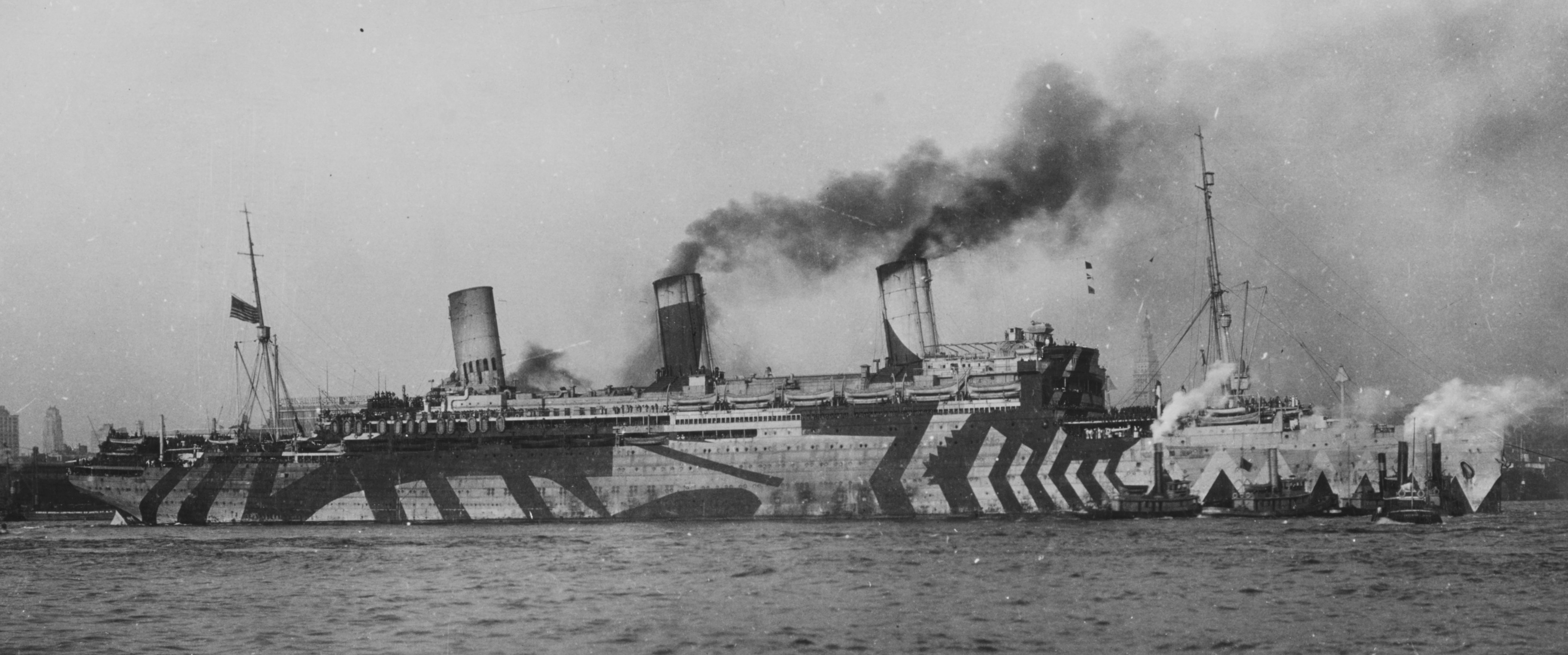 (ID # 1326) In New York Harbor, 8 July 1918, wearing dazzle camouflage and attended by several tugs. Photographed by the New York Navy Yard. Photograph from the Bureau of Ships Collection in the U.S. National Archives.